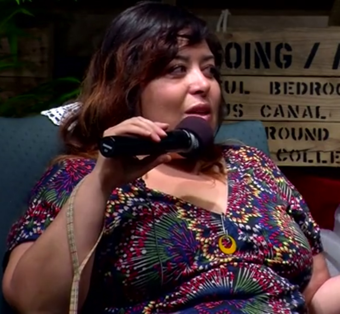 Chicana performance artist Nao Bustamante on Dale Radio by Dale Seever in 2012. Highlights from the June 2012 live episode of Dale Radio Host: Dale Seever Guests: Ellia Bisker (Sweet Soubrette) Kerri Doherty Jena Friedman Mike Crane Nao Bustamante Shot at Film Biz Recycling, Gowanus, Brooklyn Shot and edited by Bill Scurry/AmericanCaesar Enterprises